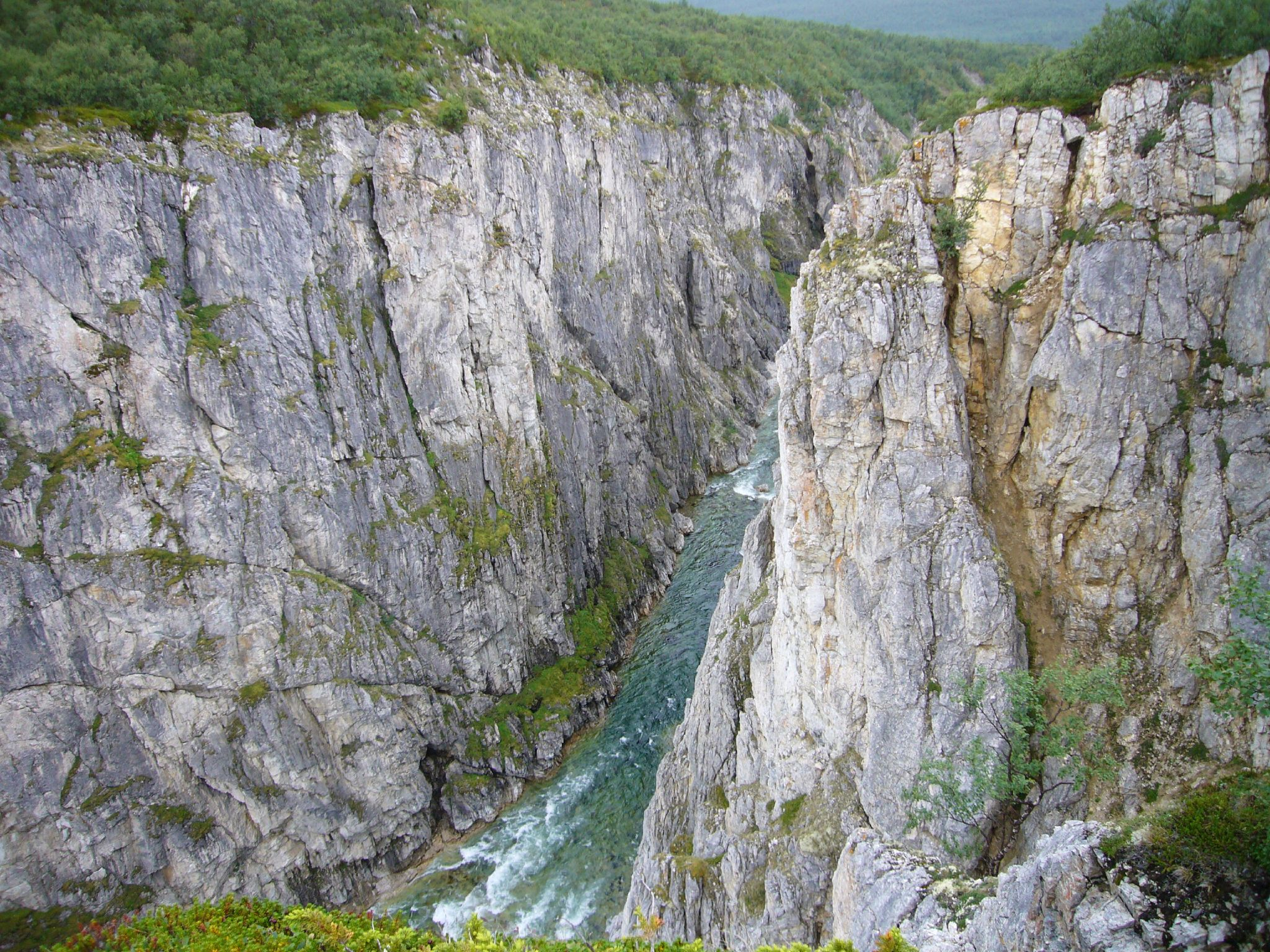 The river Børselva at SilfarfossenNorsk bokmål: Børselva ved Silfarfossen